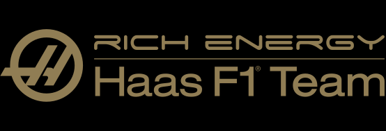 Logo of Rich Energy Haas F1 Team.